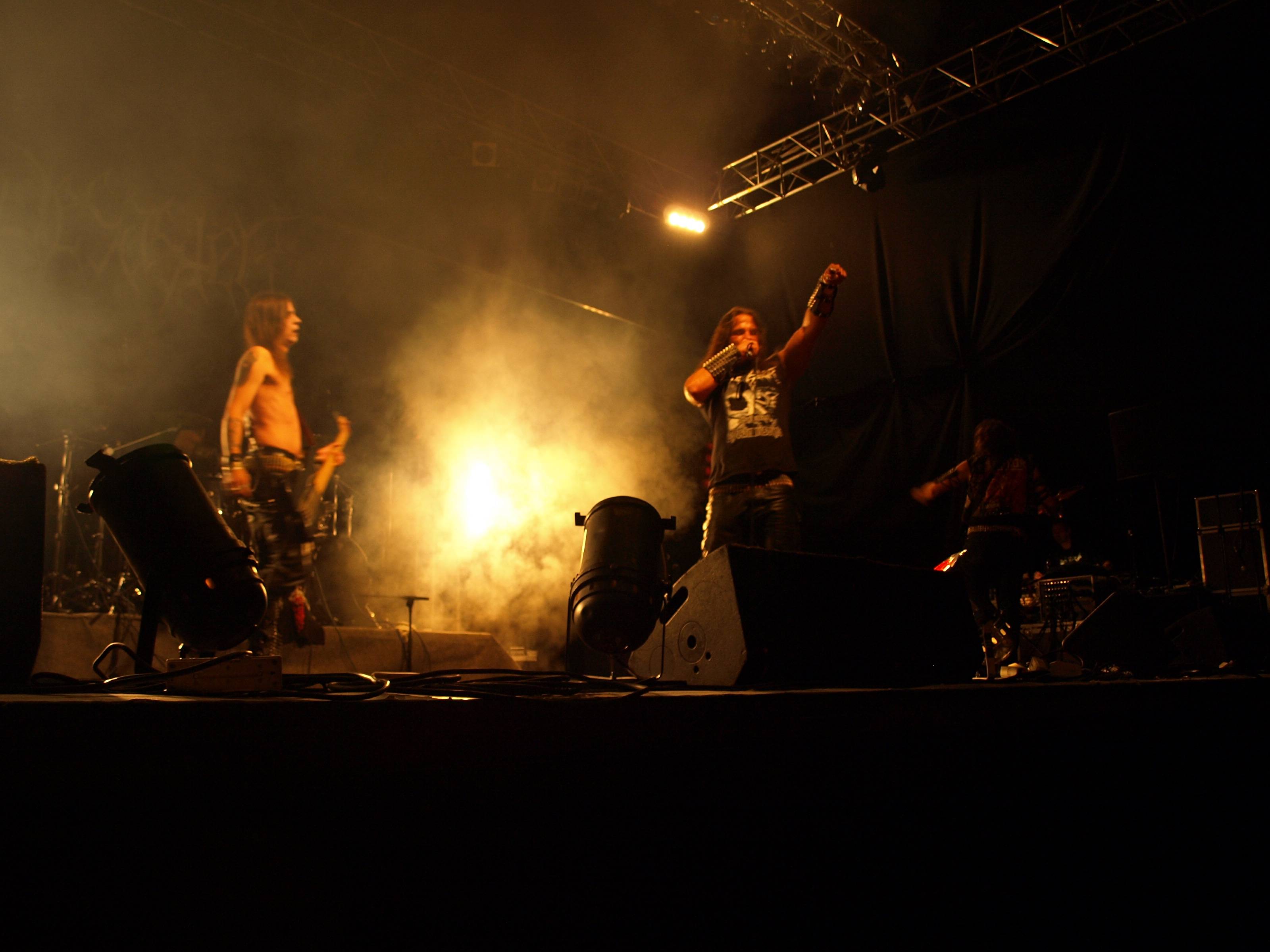 German thrash/black metal band Desaster live at Jalometalli 2008 in Oulu.